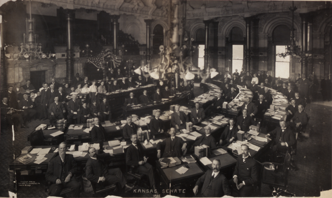 Title: Kansas Senate, 1905 Date Created/Published: 1905. Medium: 1 photographic print : gelatin silver ; 17 x 28 in. Repository: Library of Congress Prints and Photographs Division Washington, D.C. 20540 USA